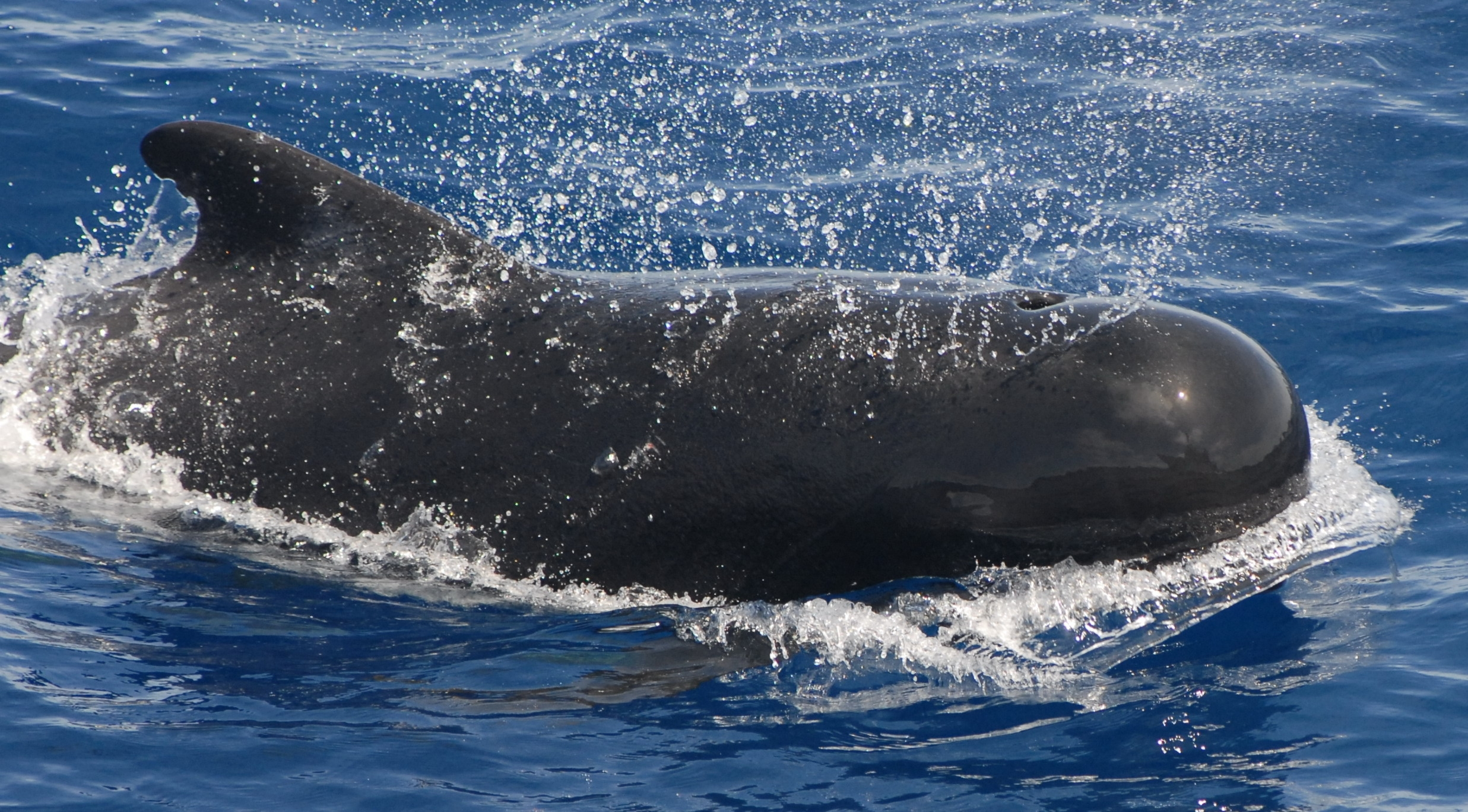 Pilot Whale. Photographer: Adam Li, NOAA/NMFS/SWFSC.